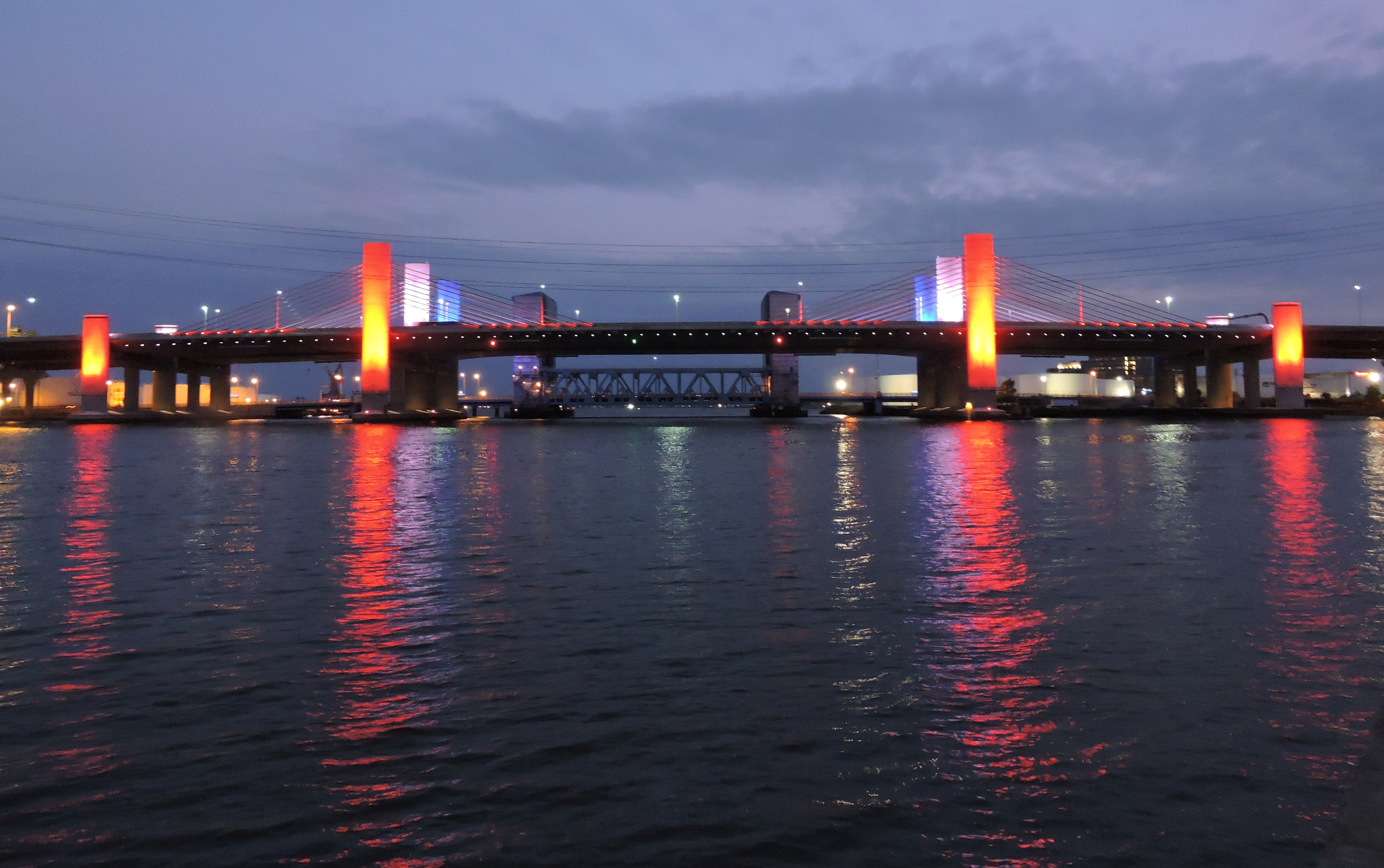 The Pearl Harbor Memorial Bridge (also known as the Q Bridge) in New Haven lit red, white, and blue. [File photo from 2016]